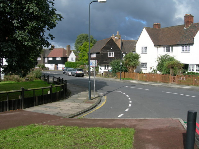 Downman Road, SE9. Viewed from Well Hall Road.